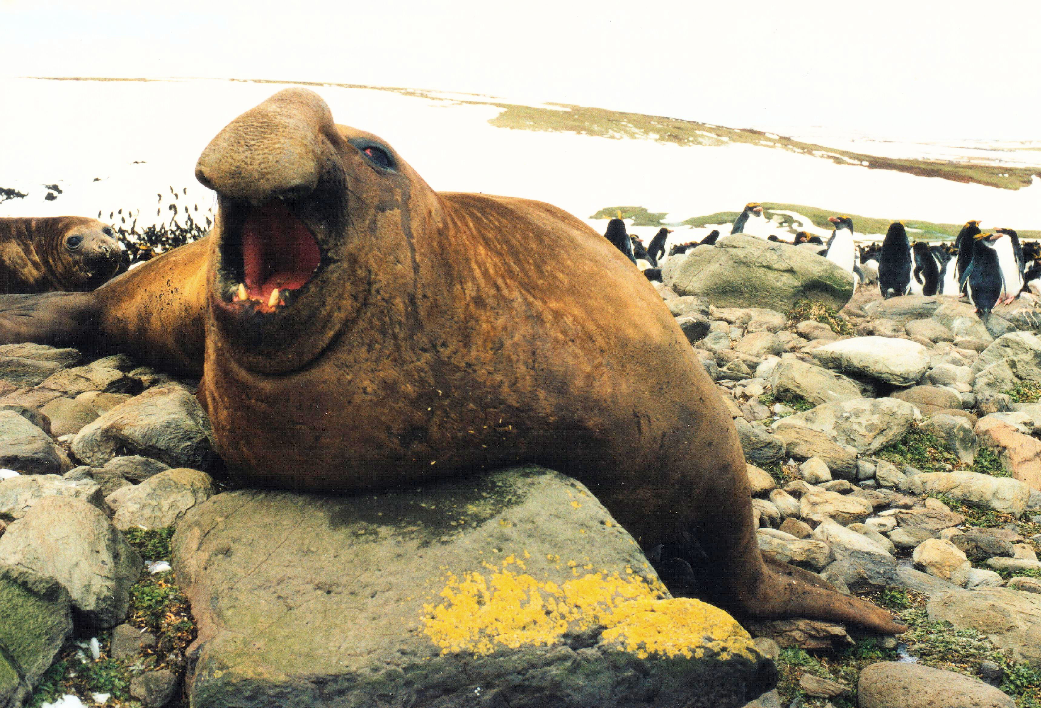 southern elephant-seal (Mirounga leonina) male on northern shore of Kerguelen Islands